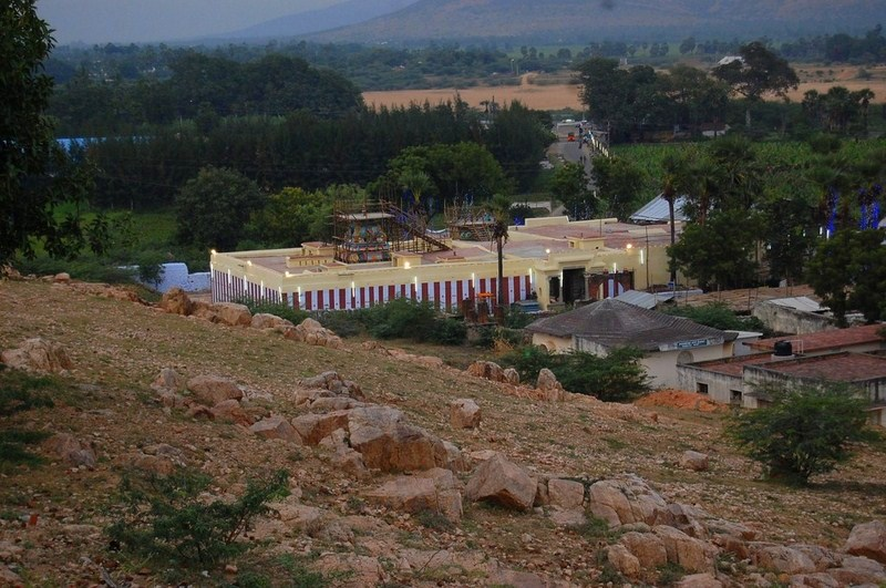 Karungulam